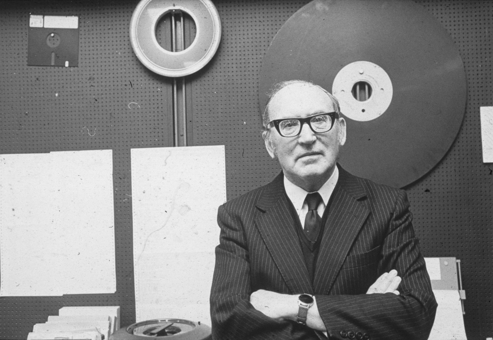 M.V. Wilkes retirement, July 1980, Titan Room